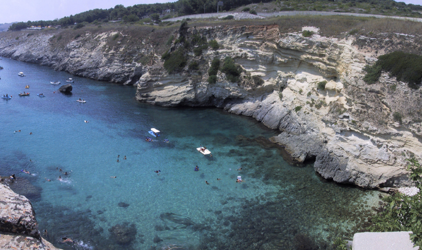 Santa Cesarea Terme's sea side - Province of Lecce - Puglia (Italy)